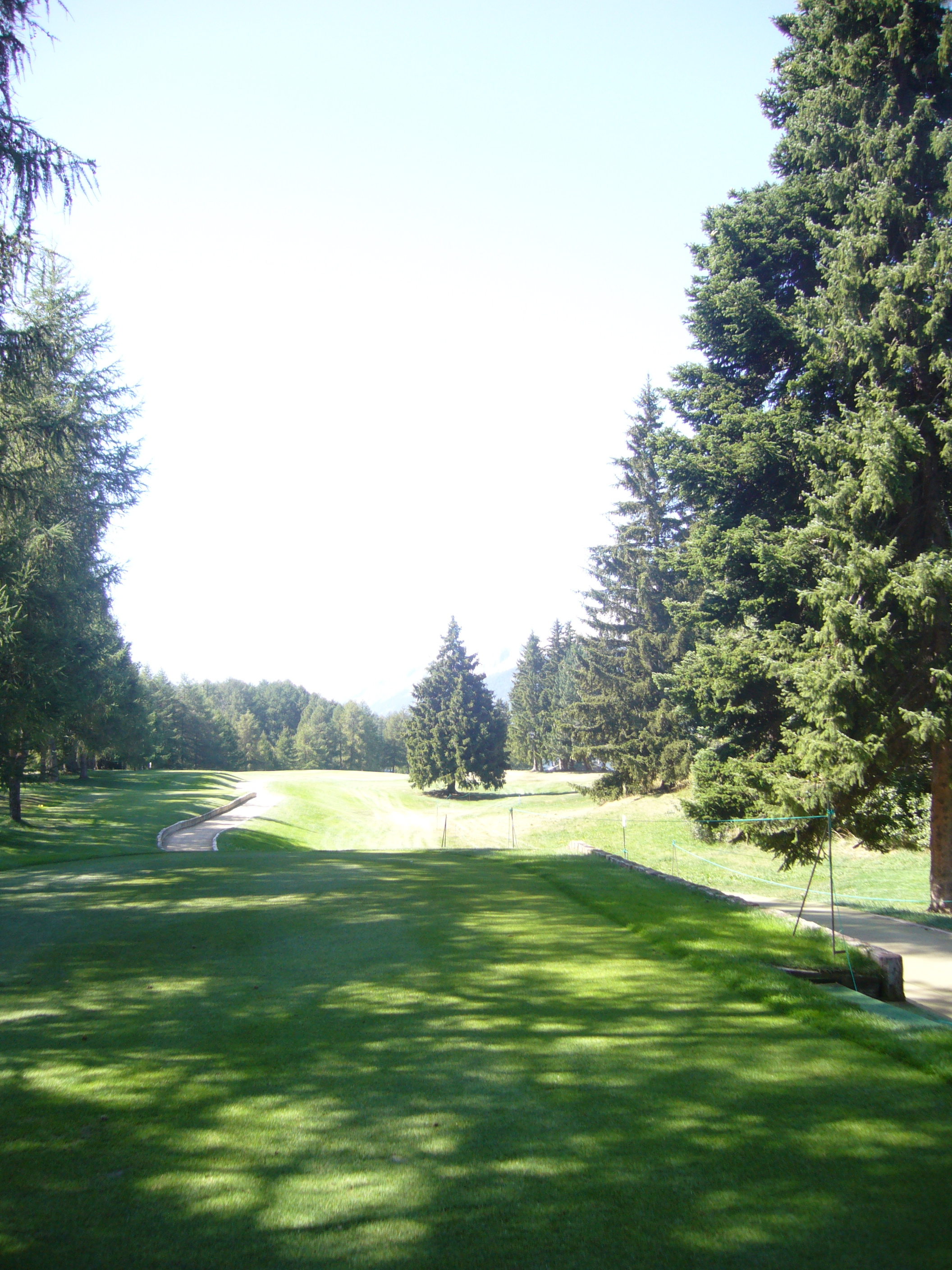 Golfcourse in Cians, Switzerland, blind tee shot on hole 4